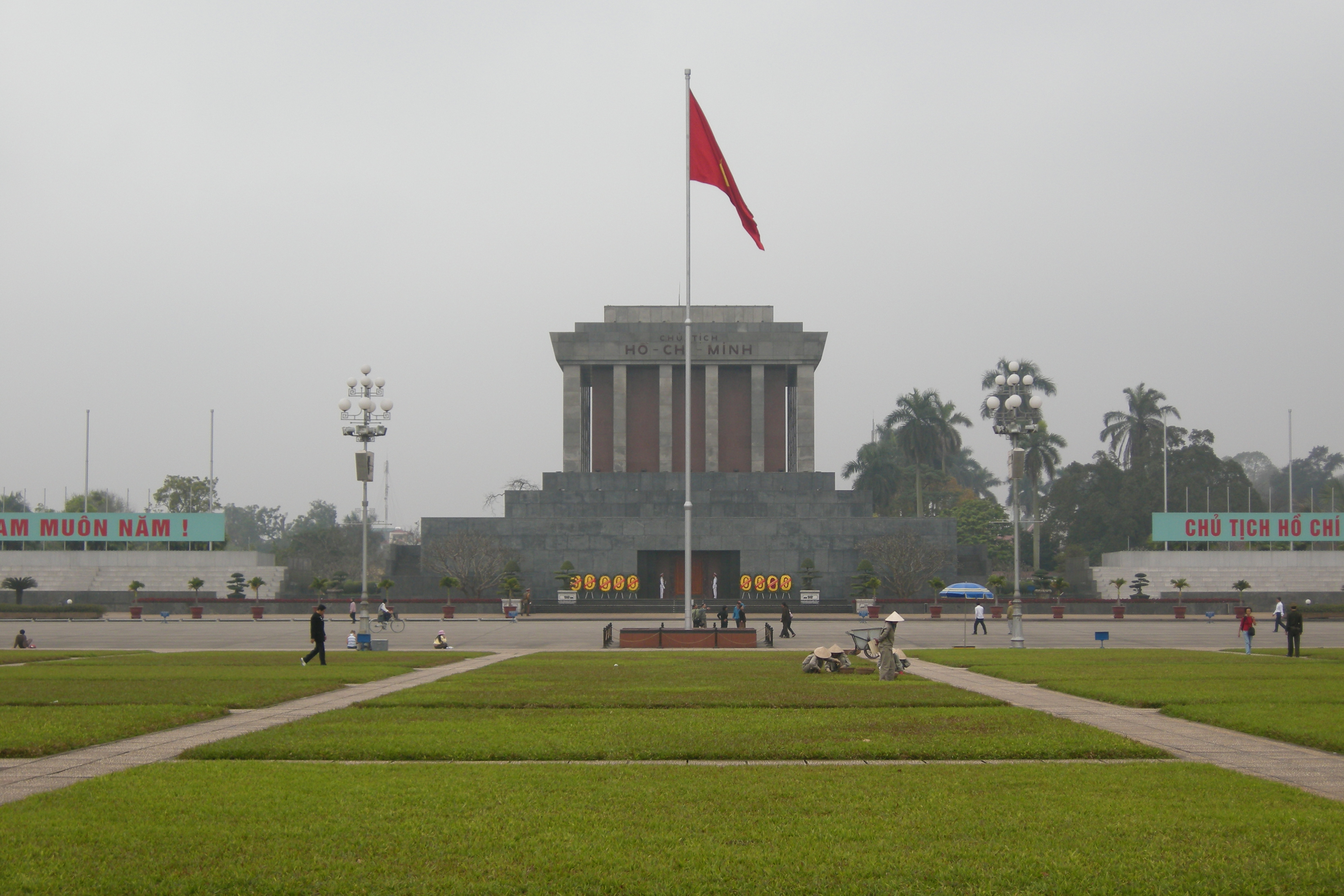 The Ho Chi Minh Mausoleum is as a resting place of Vietnamese President Ho Chi Minh in Hanoi, Vietnam. Ba Đình Square in Hanoi.